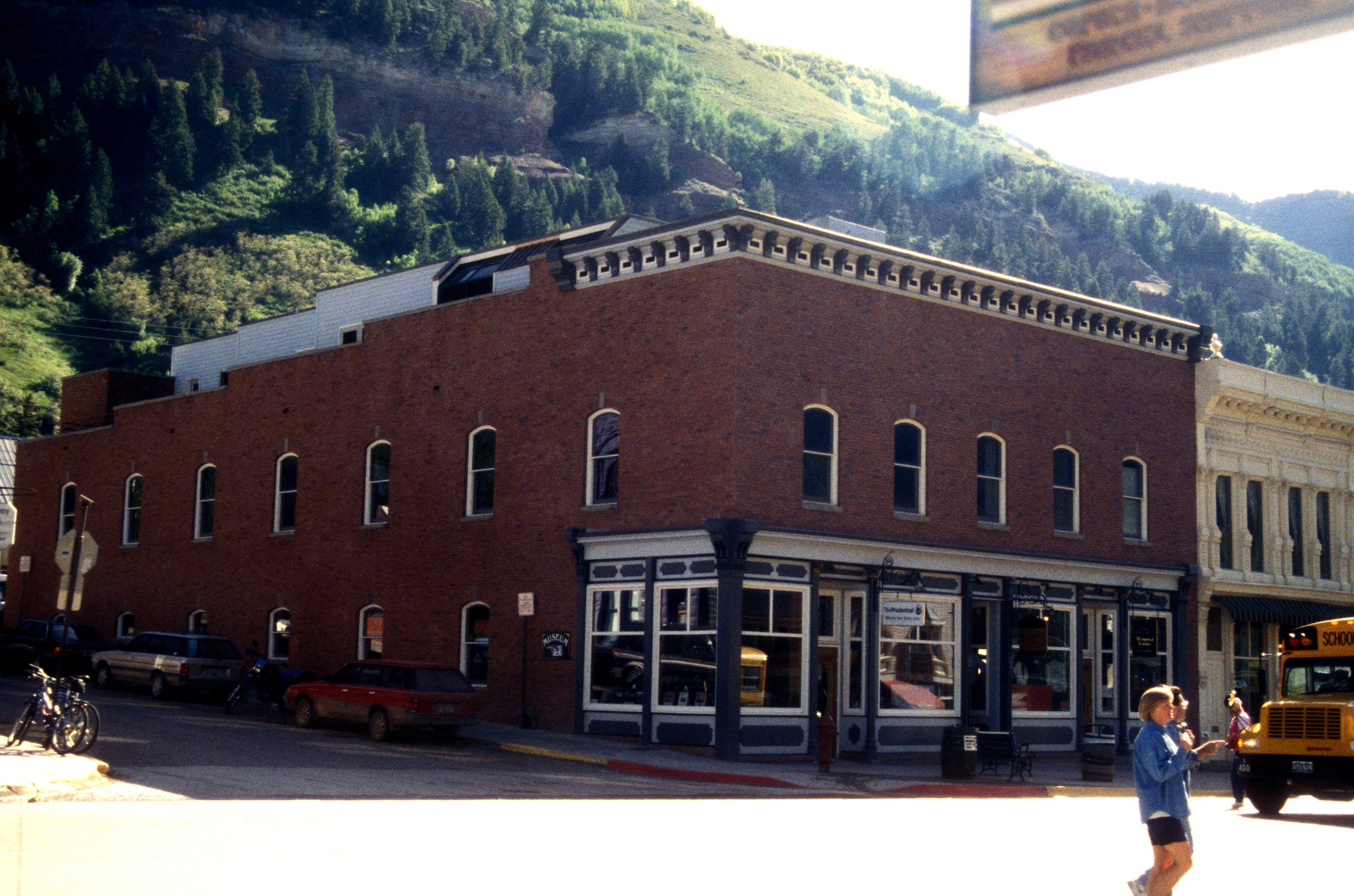 CORNER BLOCK WITH THE MAHR BUILDING NEXT DOOR (WHITE BUILDING) WHICH IN 1889 WAS A BANK AND THE SITE OF BUTCH CASSIDY'S FIRST BANK ROBBERY